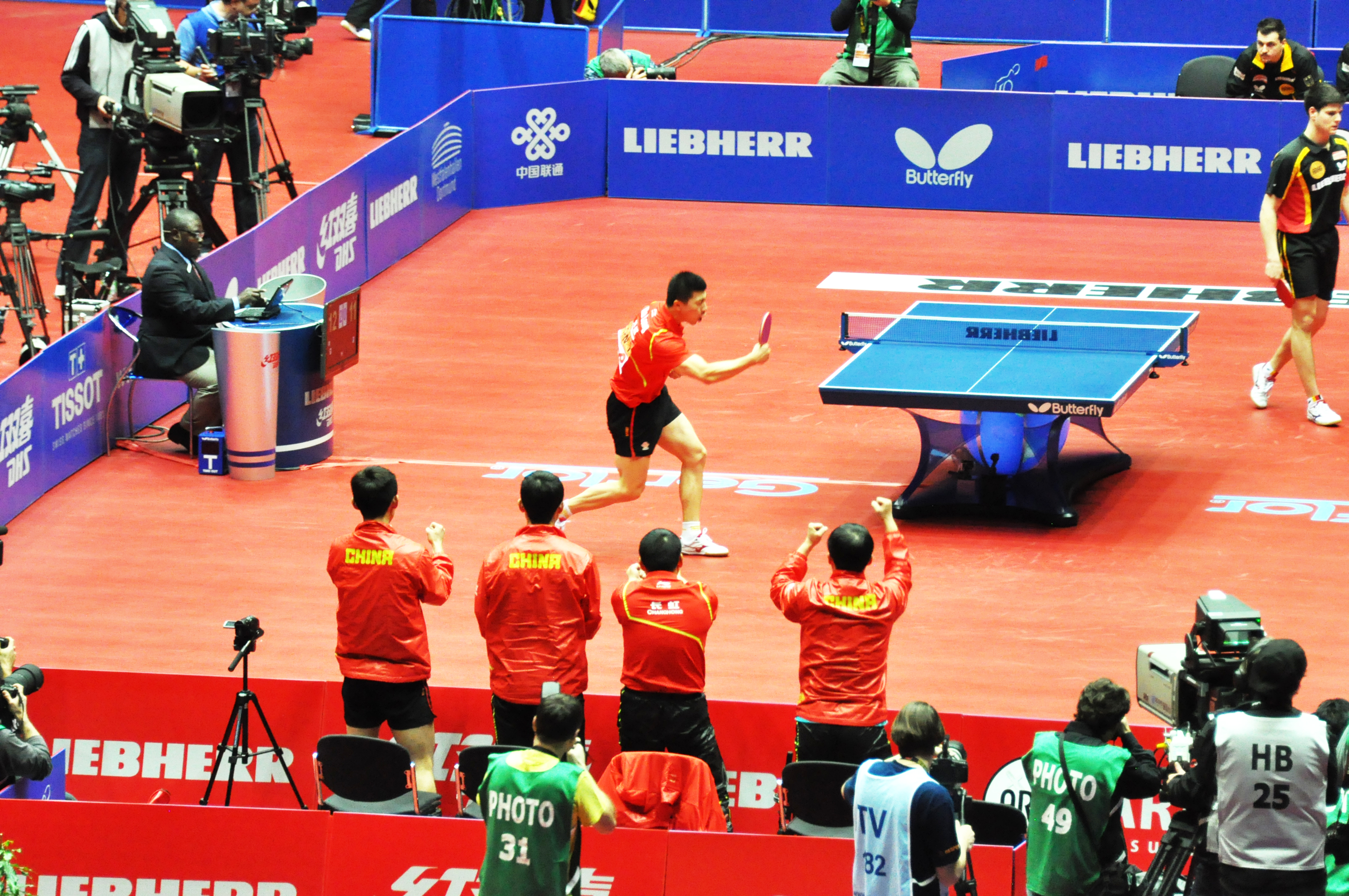 Ma Long Celebrating in 2012 World Team Table Tennis Championships